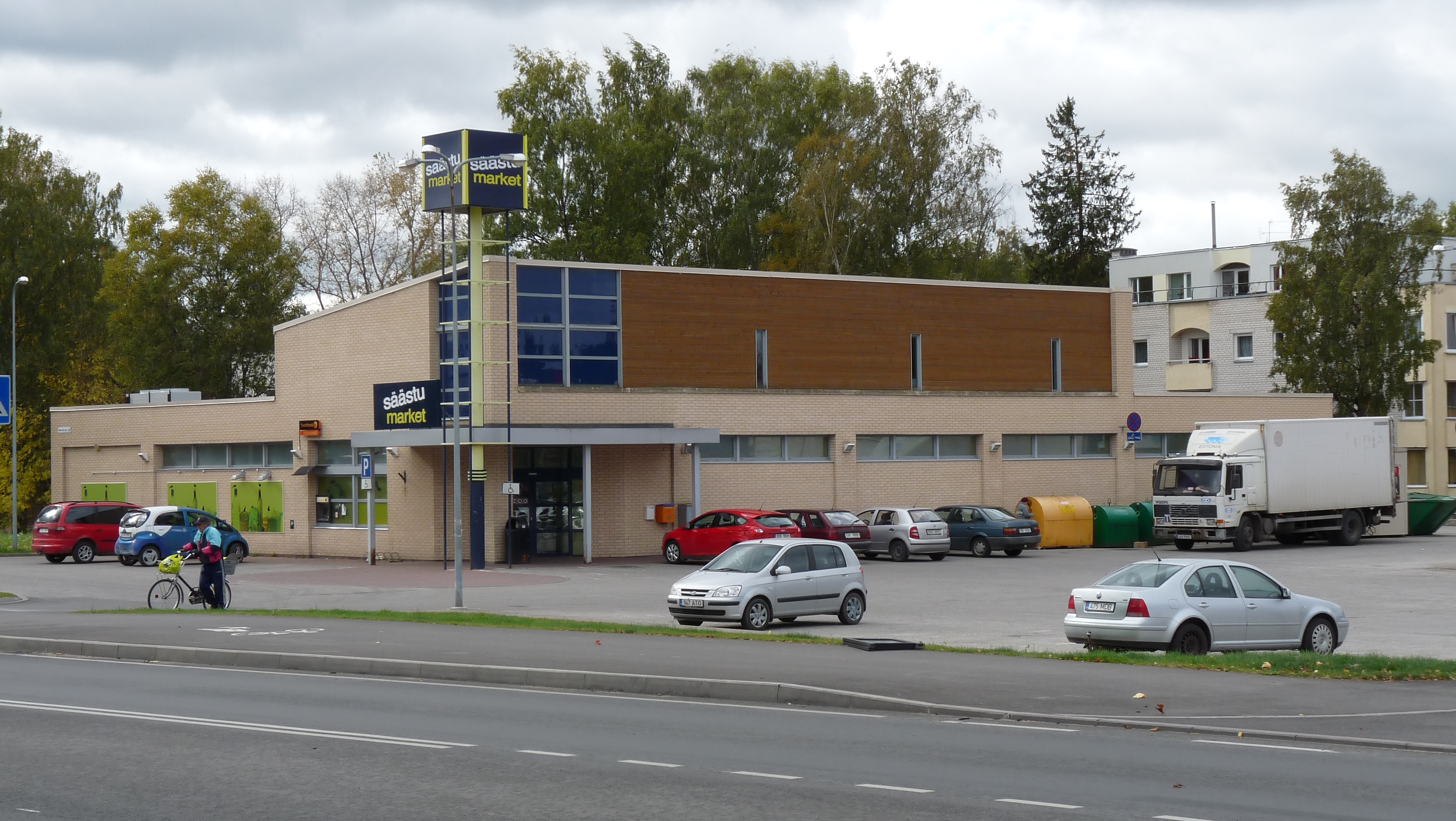 Säästumarket in Männiku quarter